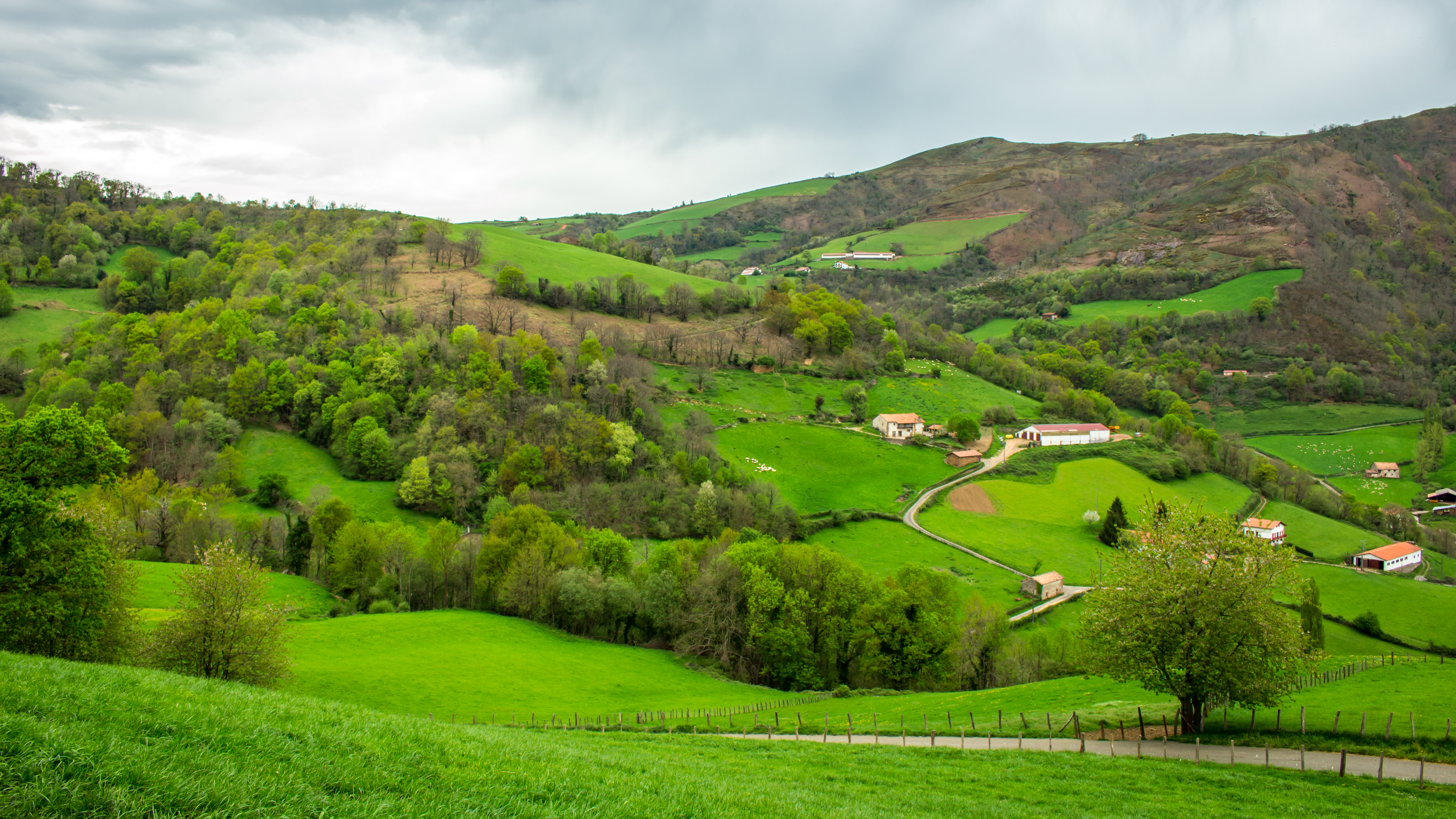 landscape in Baztan